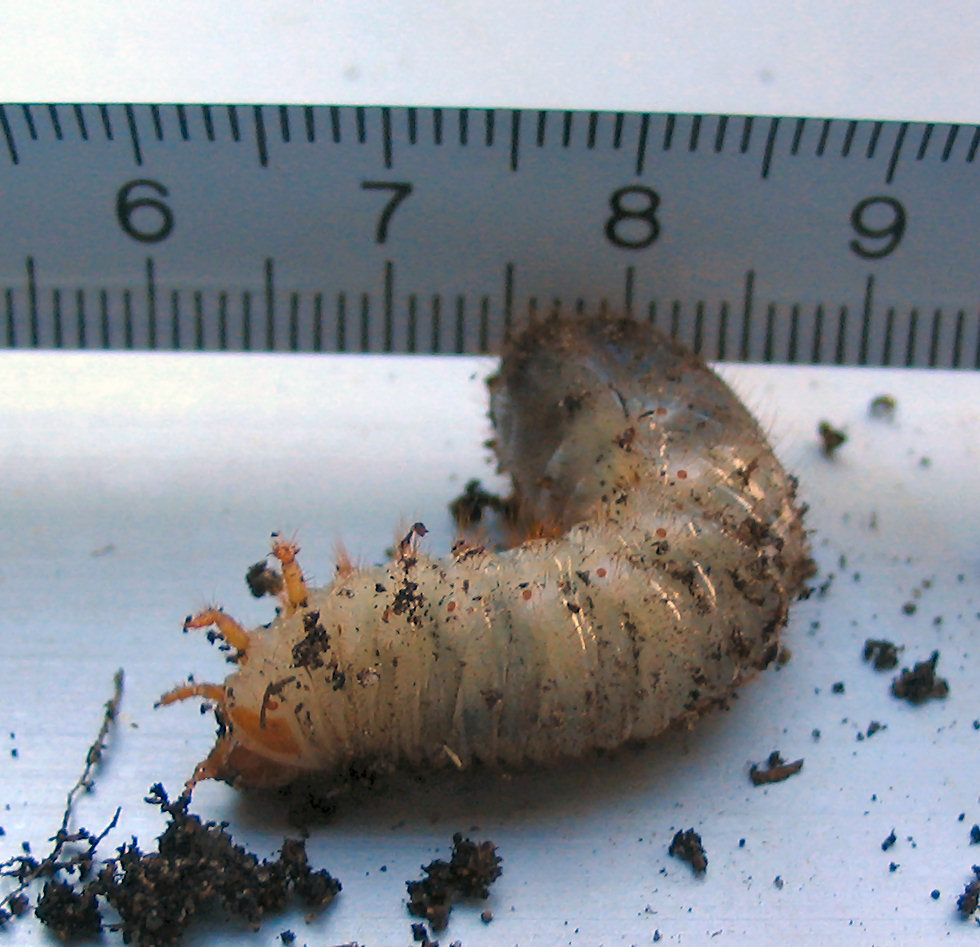 Rose chafer (Cetonia aurata) grub (ruler in centimeters)